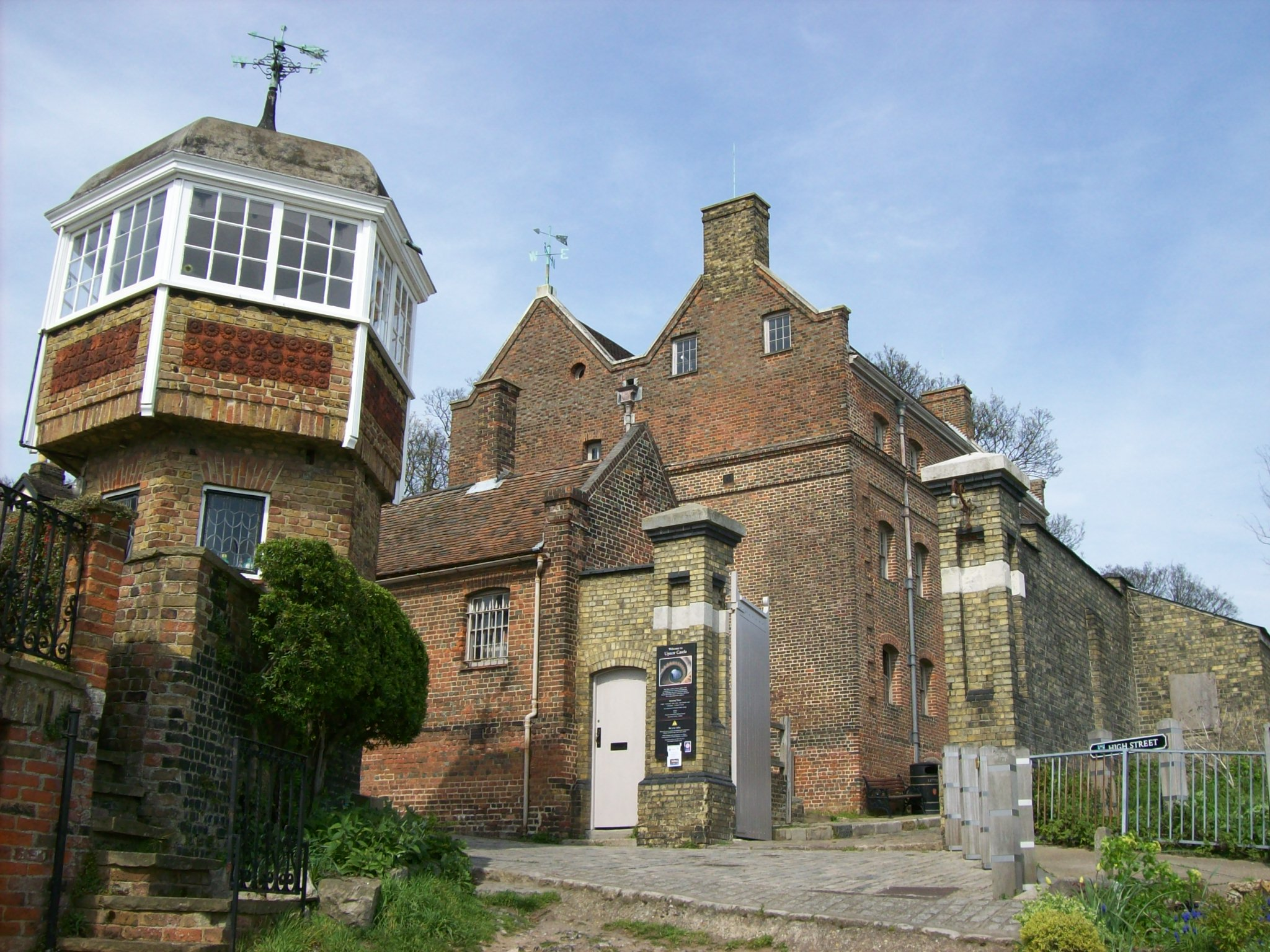 Entrance to Upnor Castle, Kent